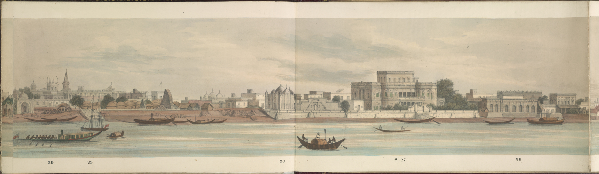 A view of the river and city of Dacca,.